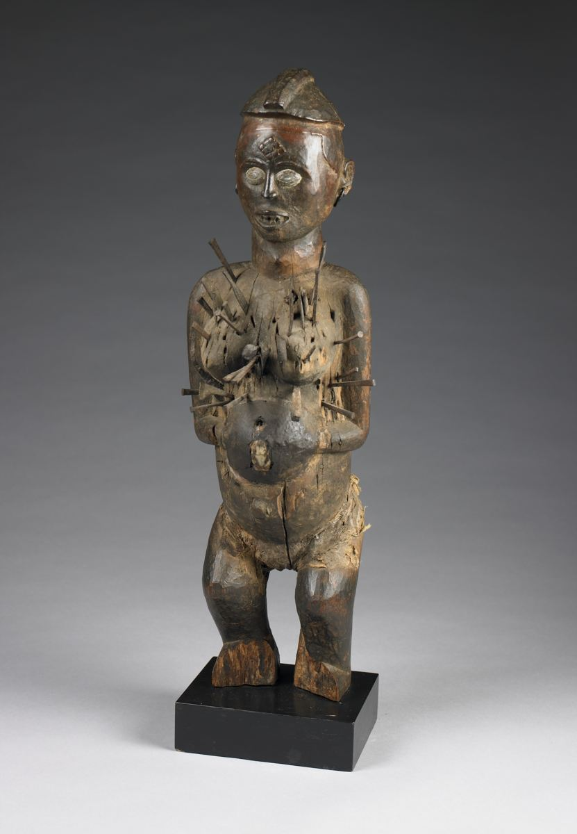 Female power figure of the Vili people - Democratic Republic of Congo